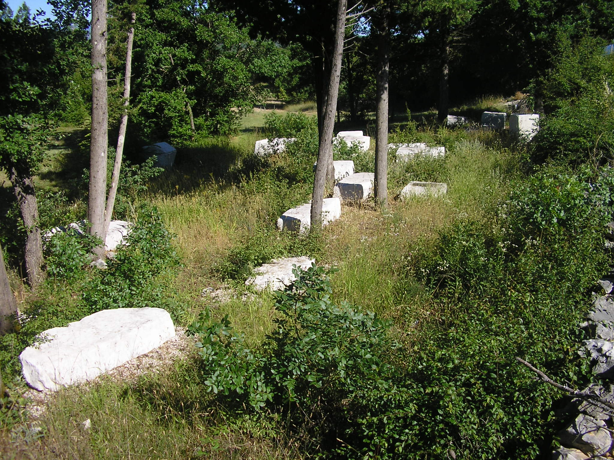 Bijača necropolis